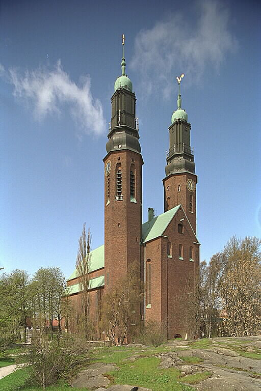 Picture of Högalid Church (Swedishː Högalidskyrkan) in 1998, published by Swedish National Heritage Board (Swedishː Riksantikvarieämbetet).